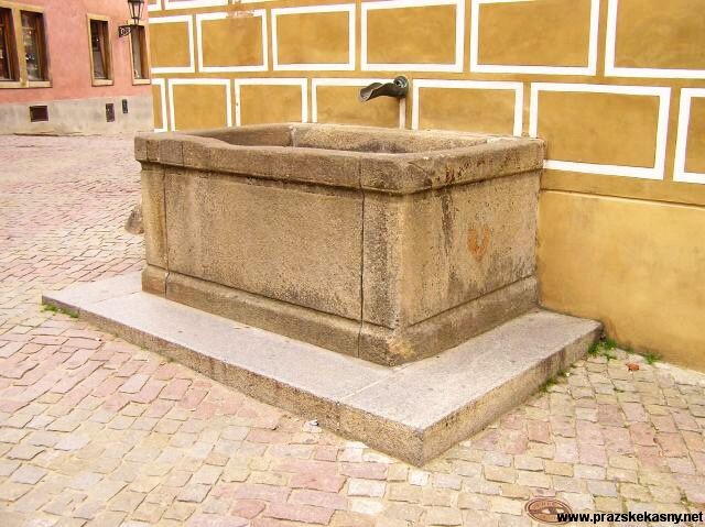 Fountain by the entry to Golden Lane in Prague.